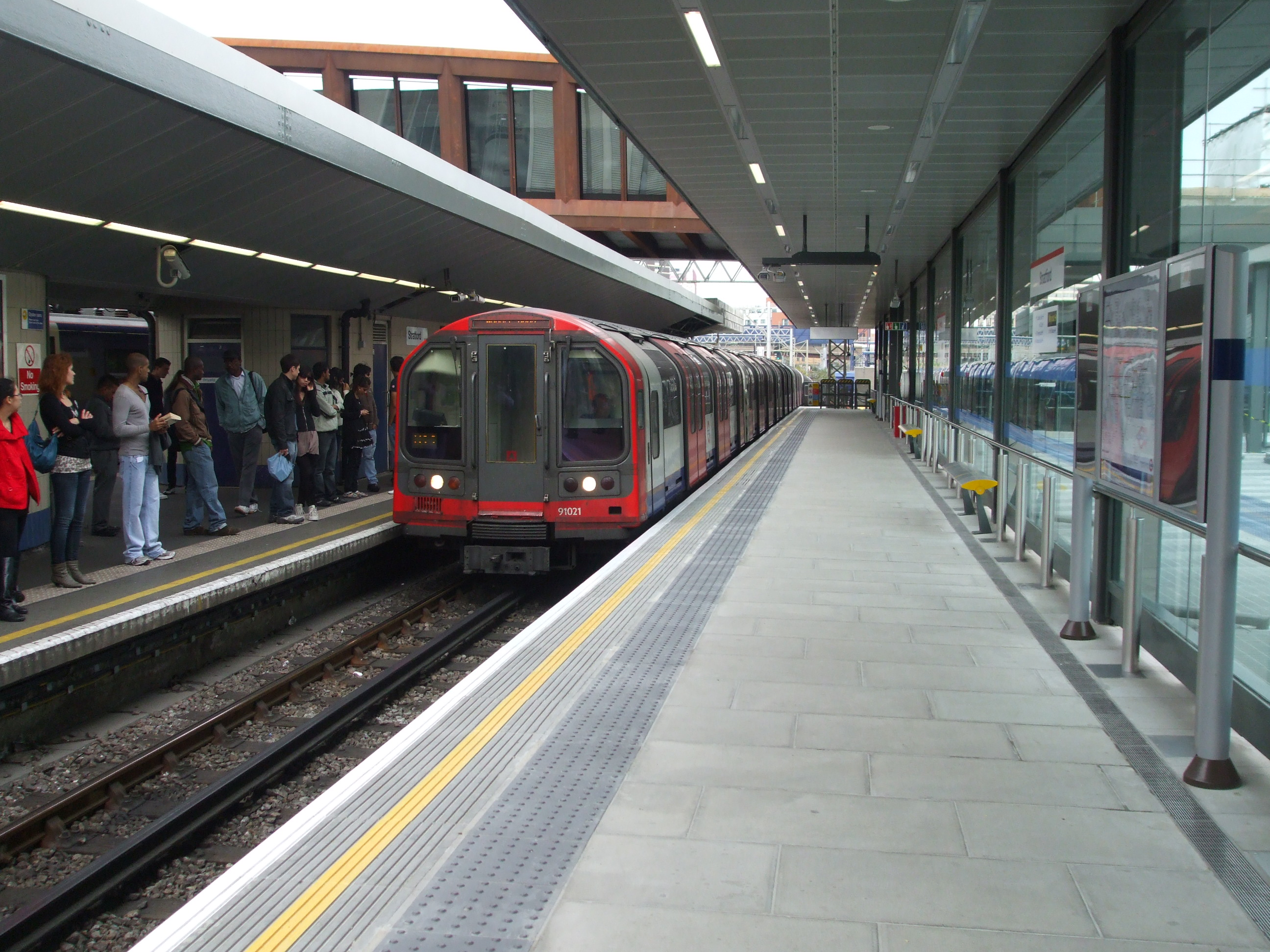 Central line 1992 stock train arrives with a westbound service at Stratford, on day of opening of the extra westbound platform 3a (from where this shot was taken).